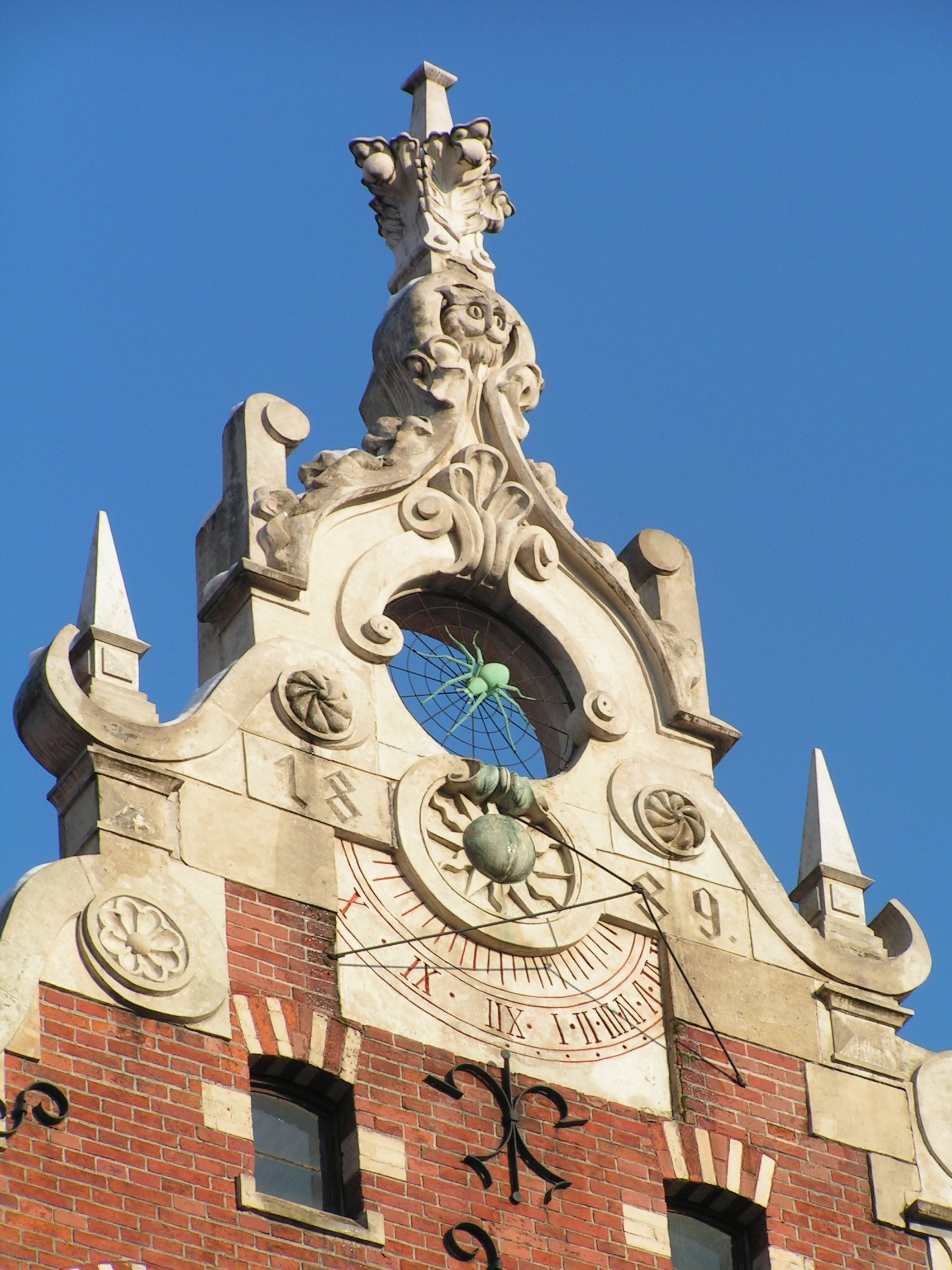 "Pod Pająkiem" house, Karmelicka street 35 in Kraków, Poland, by architect Teodor Talowski, 1891